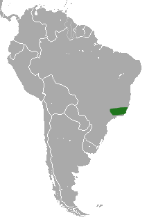 Southern Three-striped Opossum (Monodelphis theresa) range